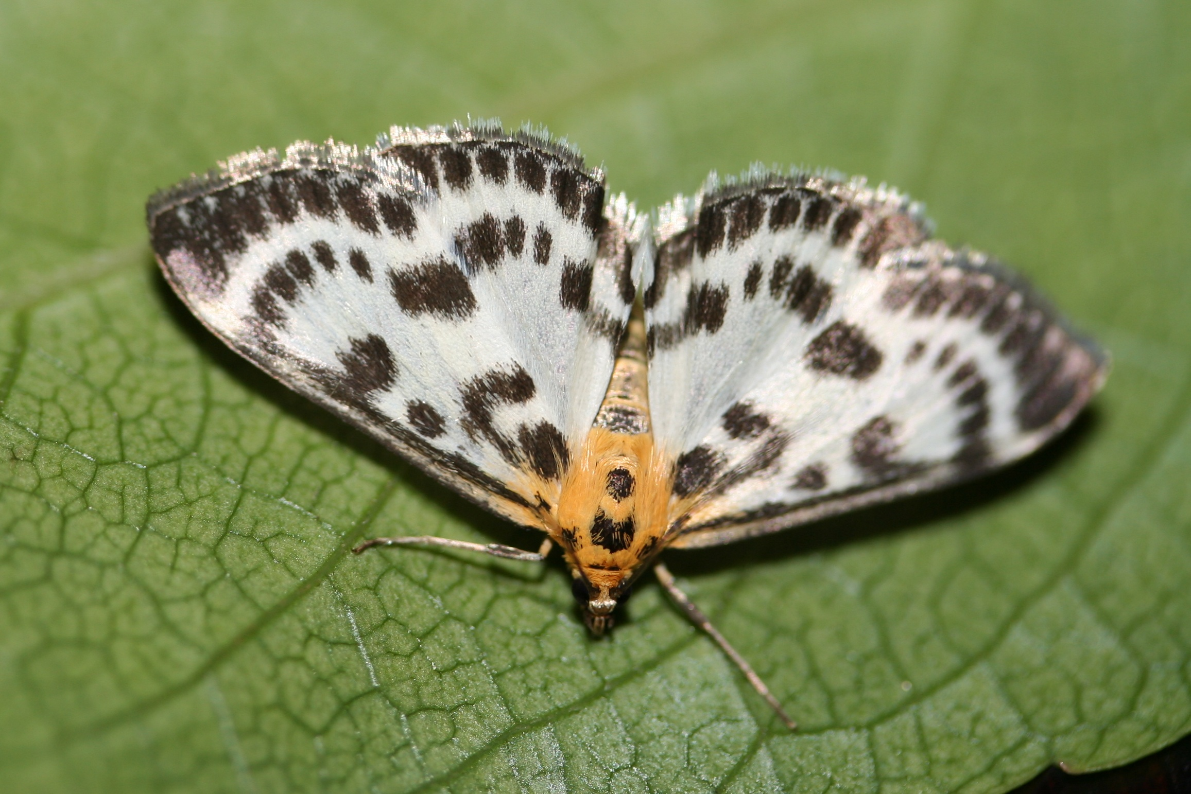 Eurrhypara hortulata 10 July 2006 IJmuiden, the Netherlands